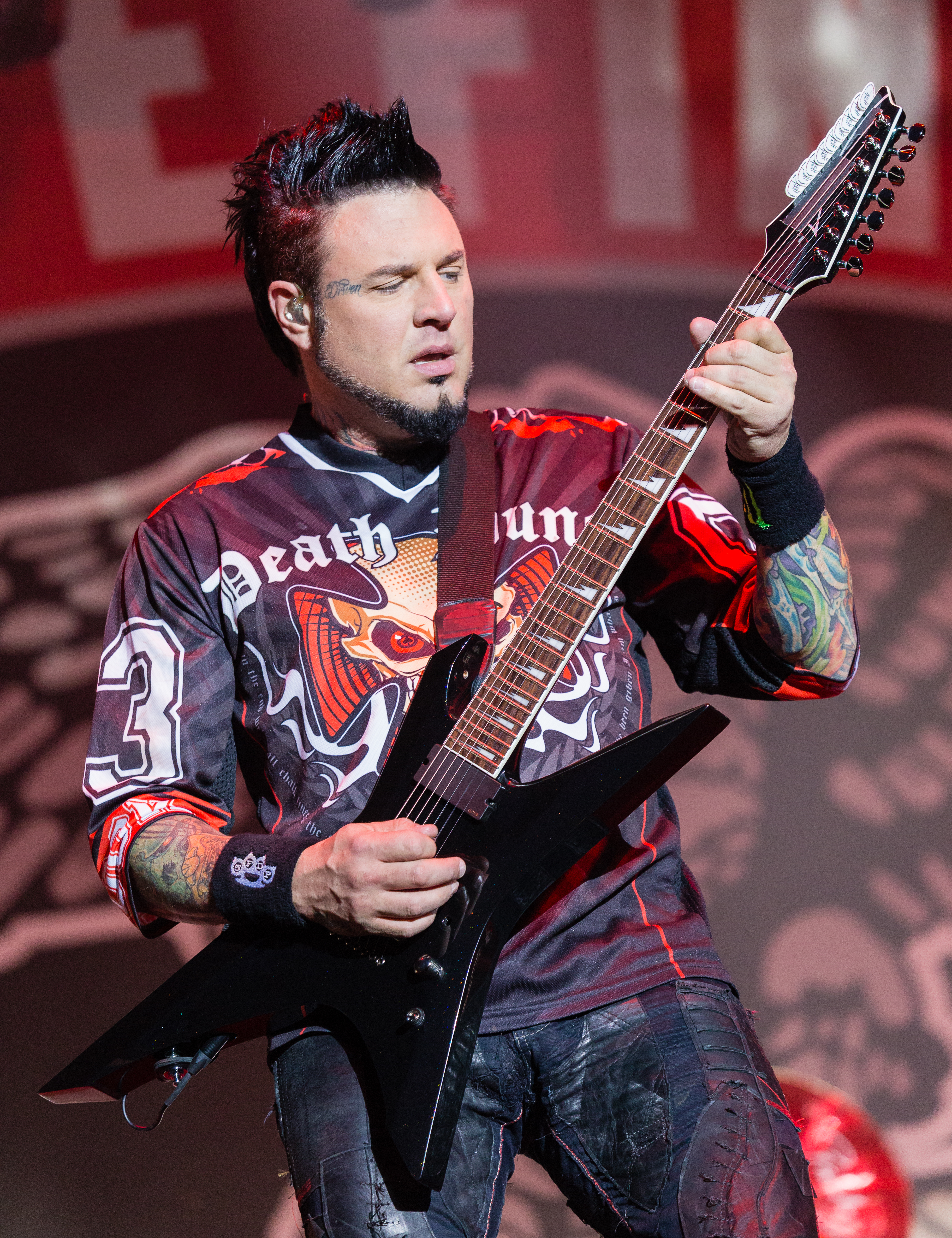 Nova Rock 2017 Jason Hook from Five Finger Death Punch at the Nova Rock 2017